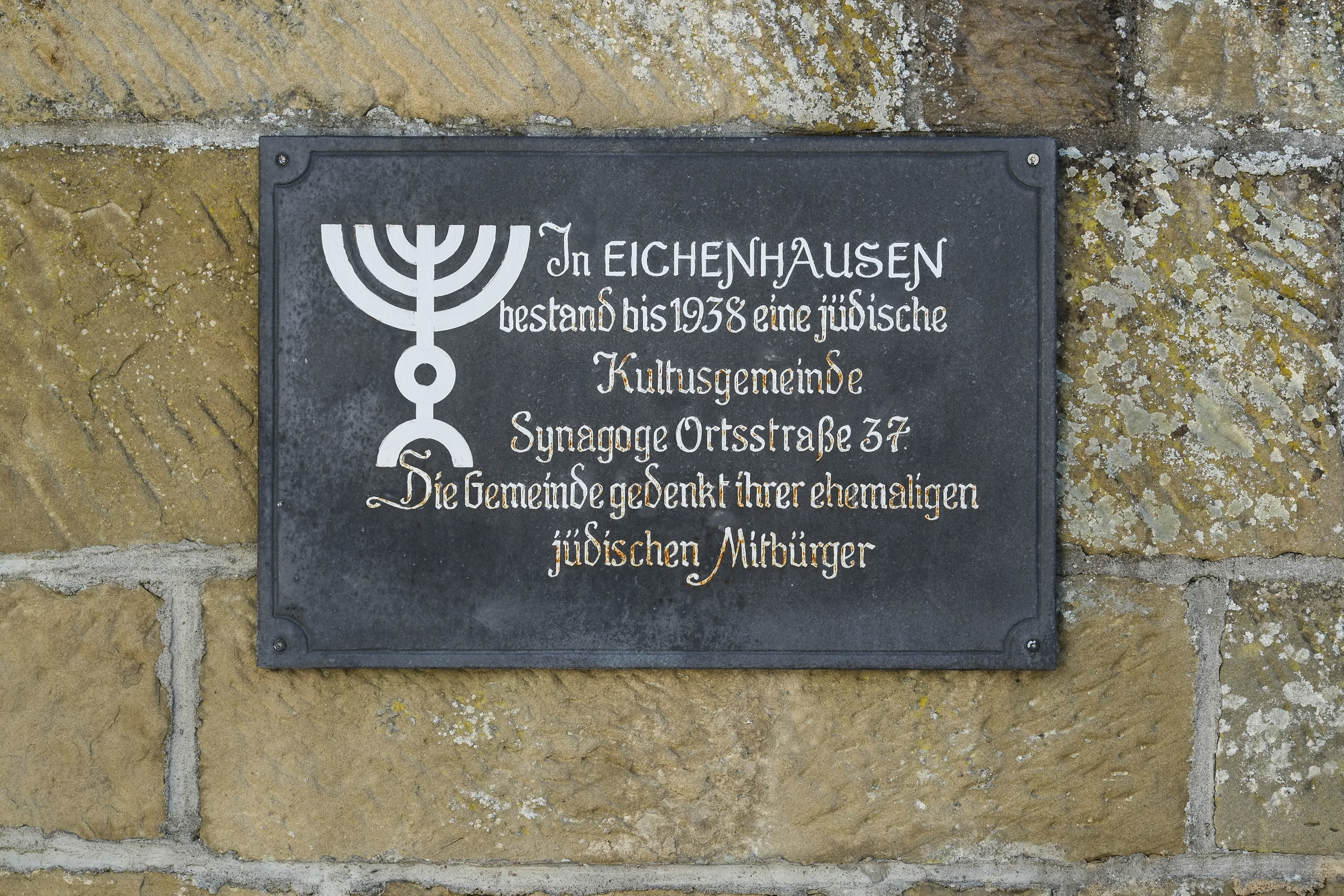 Wülfershausen-Eichenhausen, district Rhön-Grabfeld, Bavaria, Germany